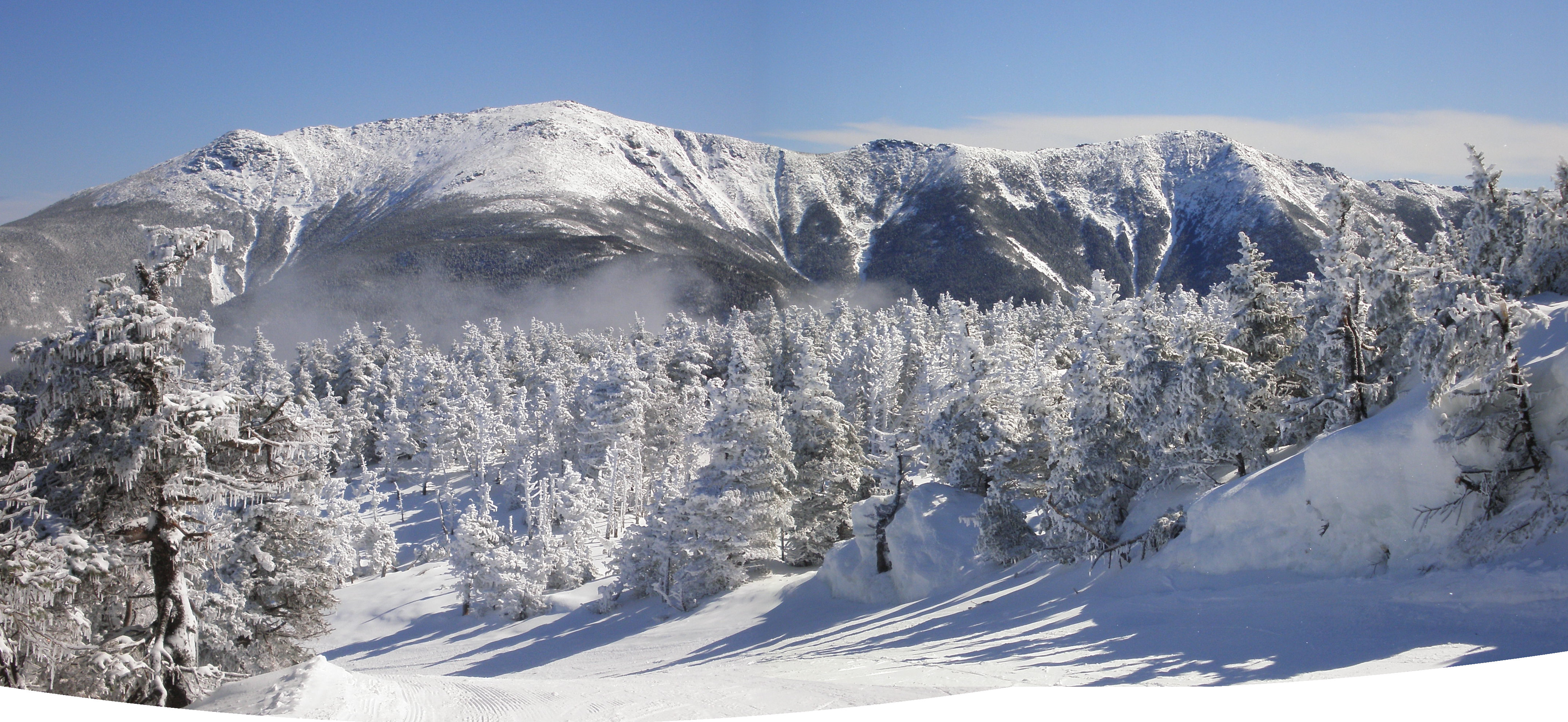 Franconia Ridge in winter viewed from Cannon Mountain